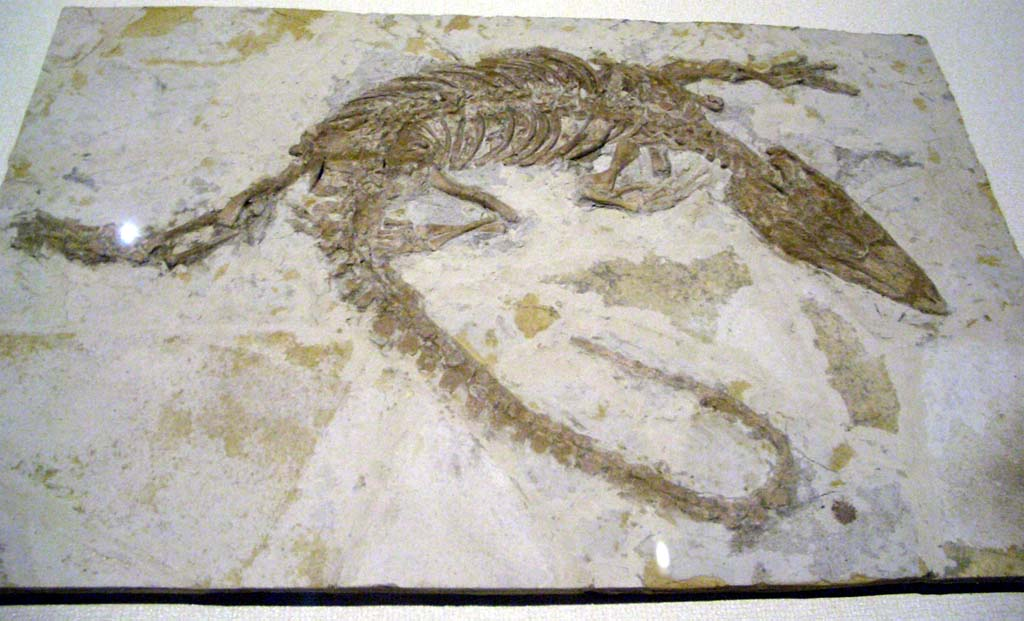 Monjurosuchus splendens fossil in lacustrine rock of the Late Jurassic/Early Cretaceous Yixian Formation of the Liaoning Province, displayed in Hong Kong Science Museum